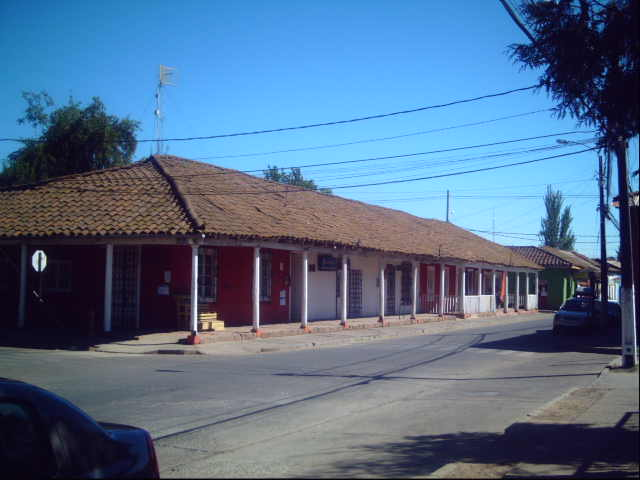 Street and houses in San Clemente, Chile